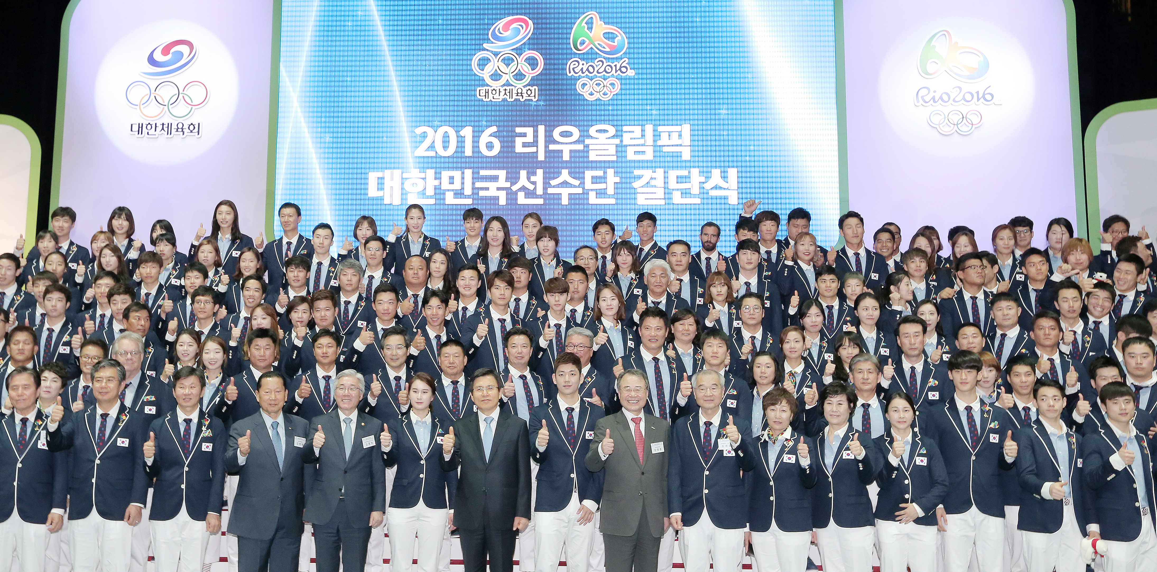 Team Korea’s inaugural ceremony for ‘2016 Rio Olympic Games’July 19, 2016Olympic Park, SeoulMinistry of Culture, Sports and TourismPhotographer: Heo ManjinThis official Republic of Korea photograph is being made available only for publication by news organizations and/or for personal printing by the subject(s) of the photograph. The photograph may not be manipulated in any way. Also, it may not be used in any type of commercial, advertisement, product or promotion that in any way suggests approval or endorsement from the government of the Republic of Korea.--------------------------------2016 리우 하계올림픽 선수단 결단식2016-07-19올림픽공원문화체육관광부허만진